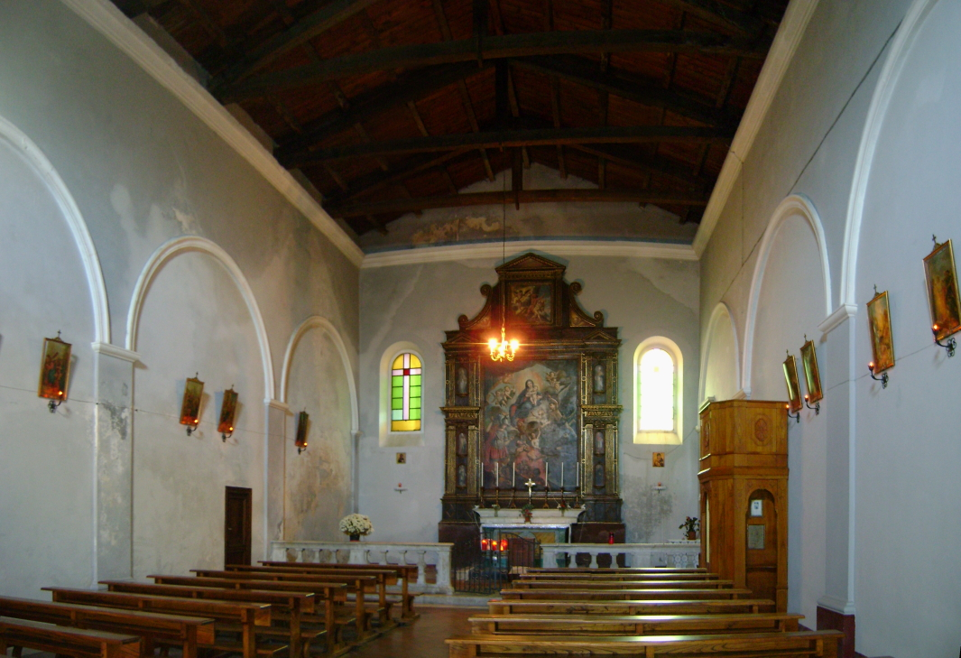 The interior of the church of Madonna delle Grazie, in Pescocostanzo, province of L'Aquila, Abruzzo